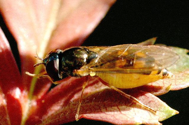 Picture taken in Commanster, Belgian High Ardennes . Species: female Platycheirus scambus